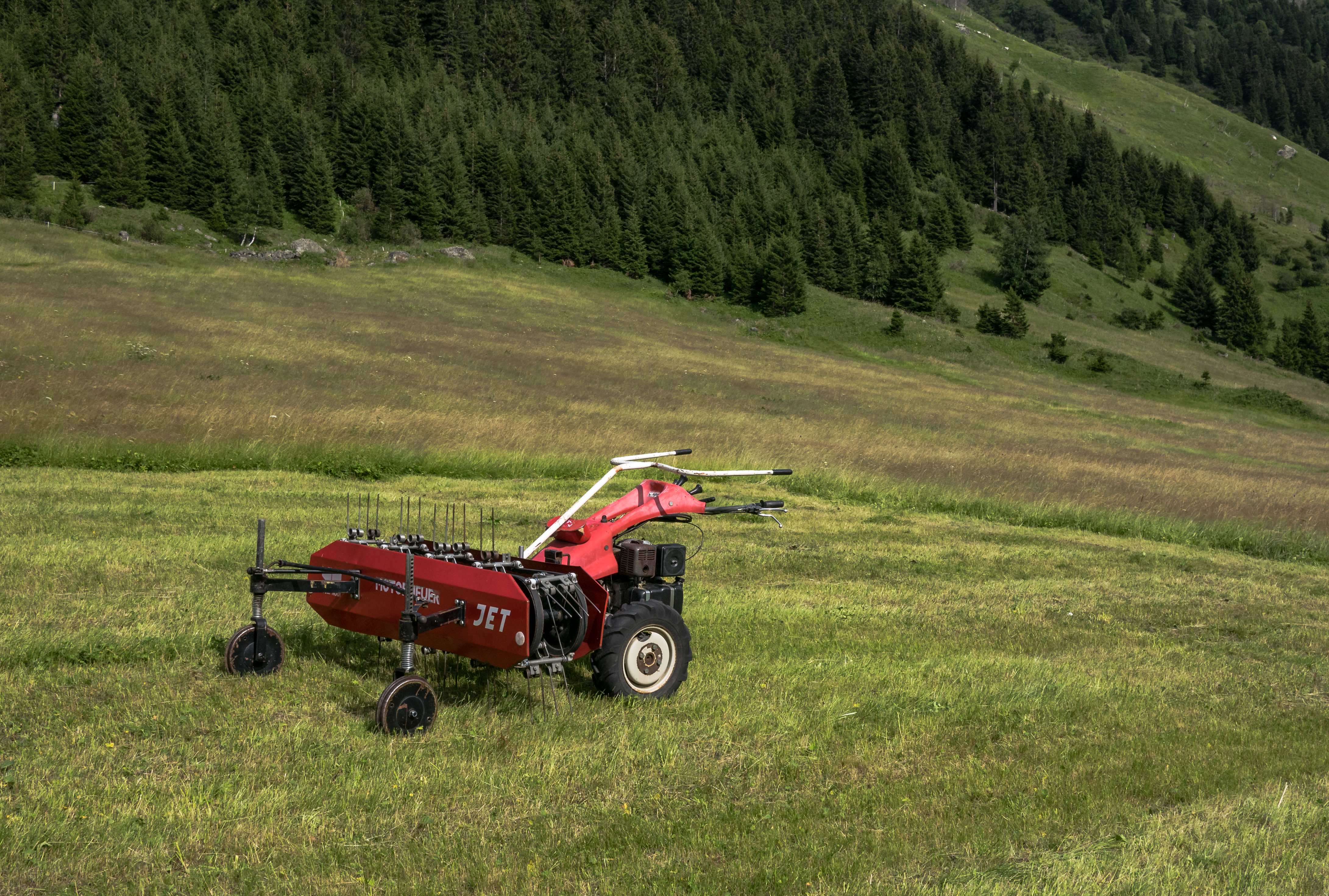 Hay tedder on a meadow, model Motorheuer Jet of the company Vogel & Noot. Galtür, Paznaun valley, Tyrol, Austria